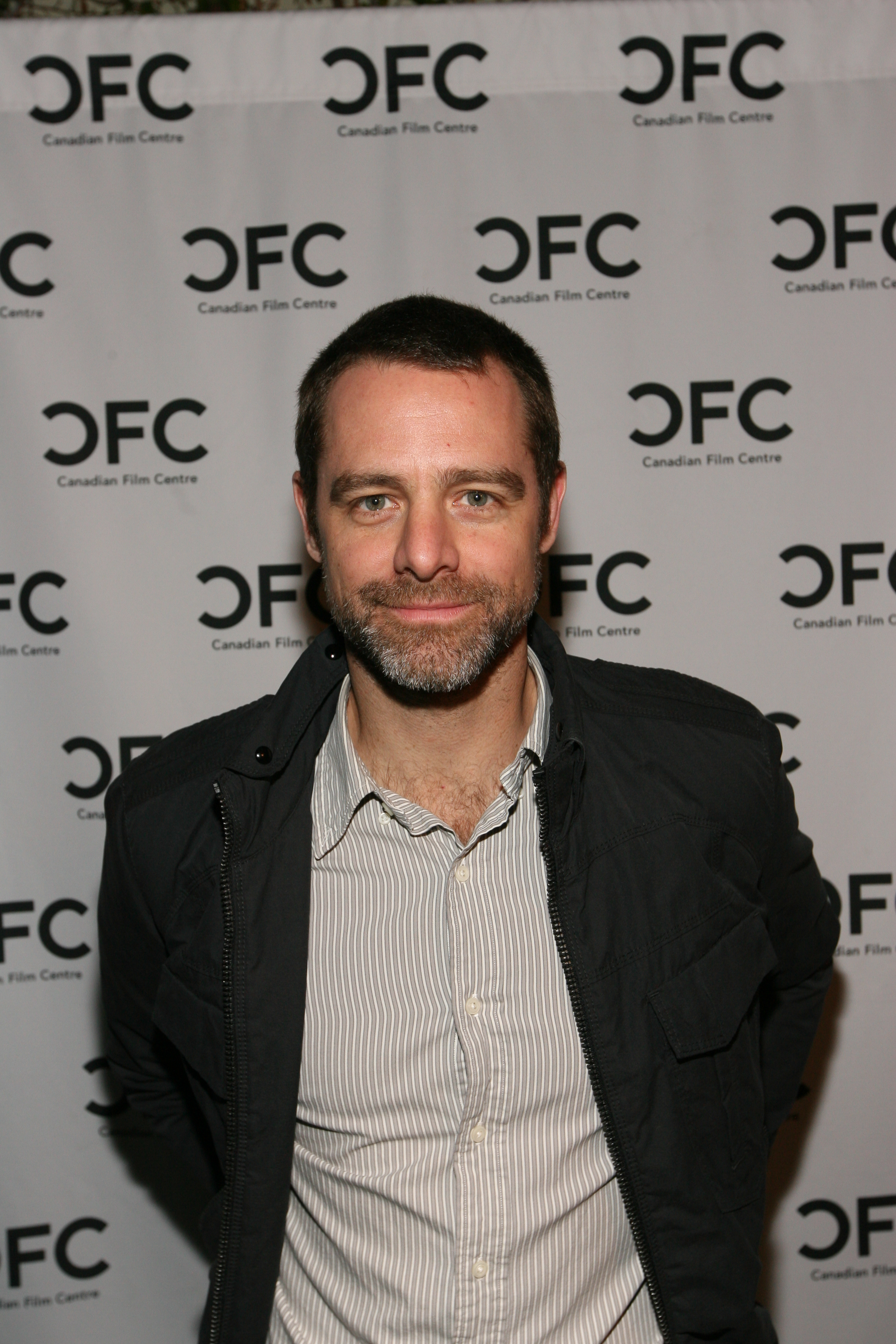 David Sutcliffe at a Canadian Film Centre & Variety-hosted reception for the Telefilm Canada Features Comedy Lab.